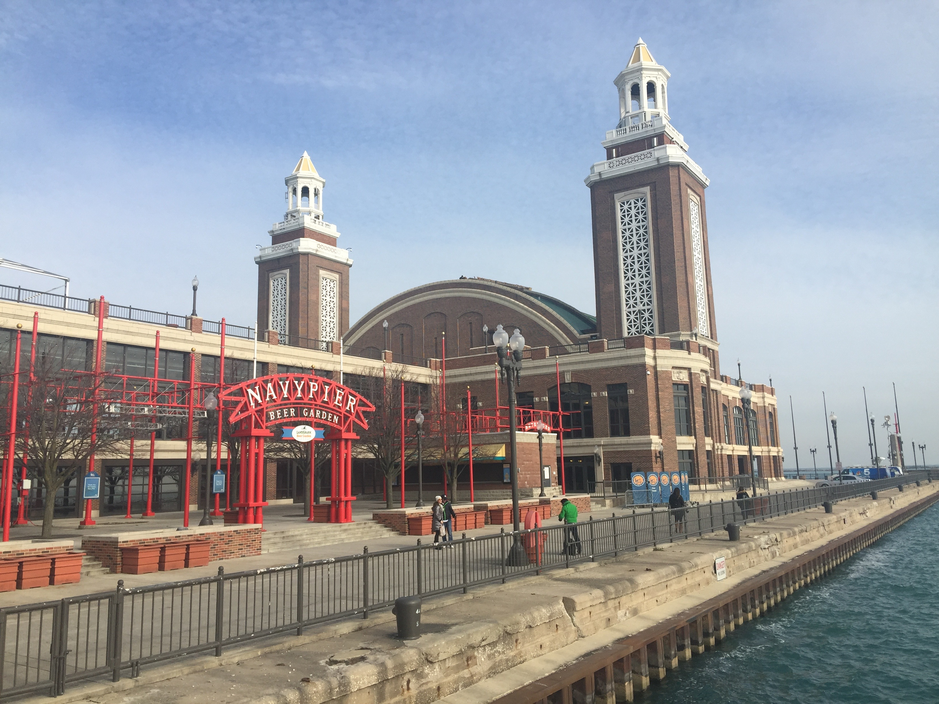 Navy Pier, Chicago, IL 11-24-15